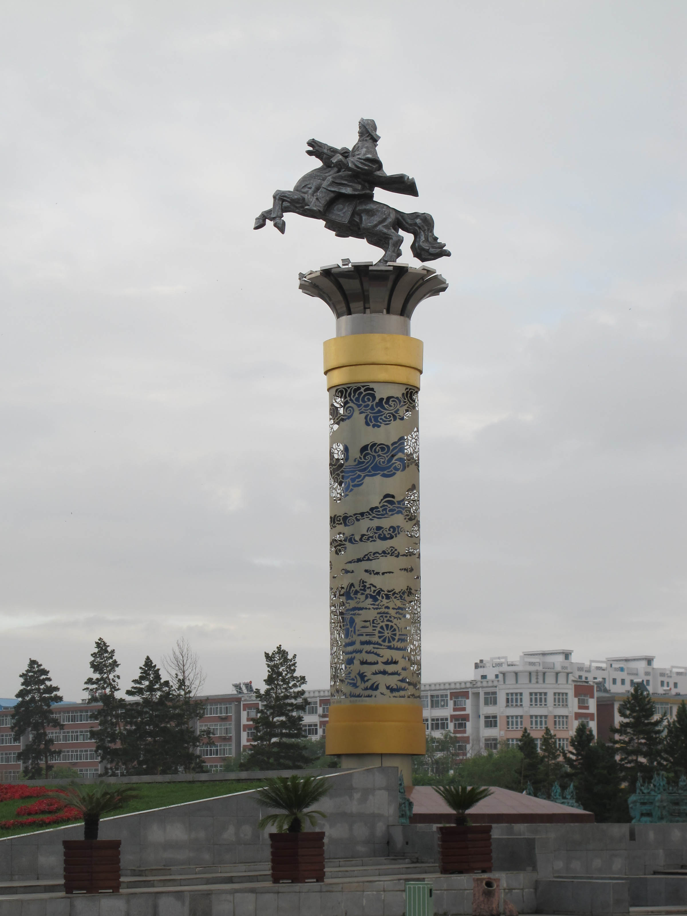 Genghis Khan Monument in Hulunbuir, Inner Mongolia, China